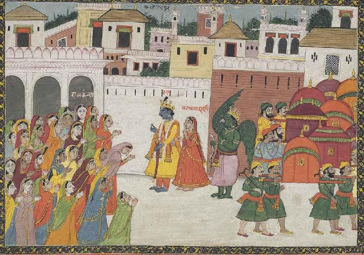 A scene from the Mahabharata: Krishna enters Pragjaothishyapura India, Punjab Plains, circa 1840 Krishna shown standing at center dressed in a yellow kurta and adorned with a golden crown, holding a small flower bud in his right hand and a sword in his left, standing next to Satyabhama dressed in orange and Garuda holding a snake, with a group of women with heads bowed and hands clasped in adoration at left, and a group of men carrying palanquins away at right, all backed by the walls, arcades, and towers of Pragjothishyapura Opaque pigments and gold on paper 9 1/8 x 13 1/8 in. (23.1 x 33.5 cm.), image 11 5/8 x 15 7/8 in. (29.6 x 40.2 cm.), folio Provenance: Private collection, London, acquired at Bonham's London, 19 April 2007, lot 344